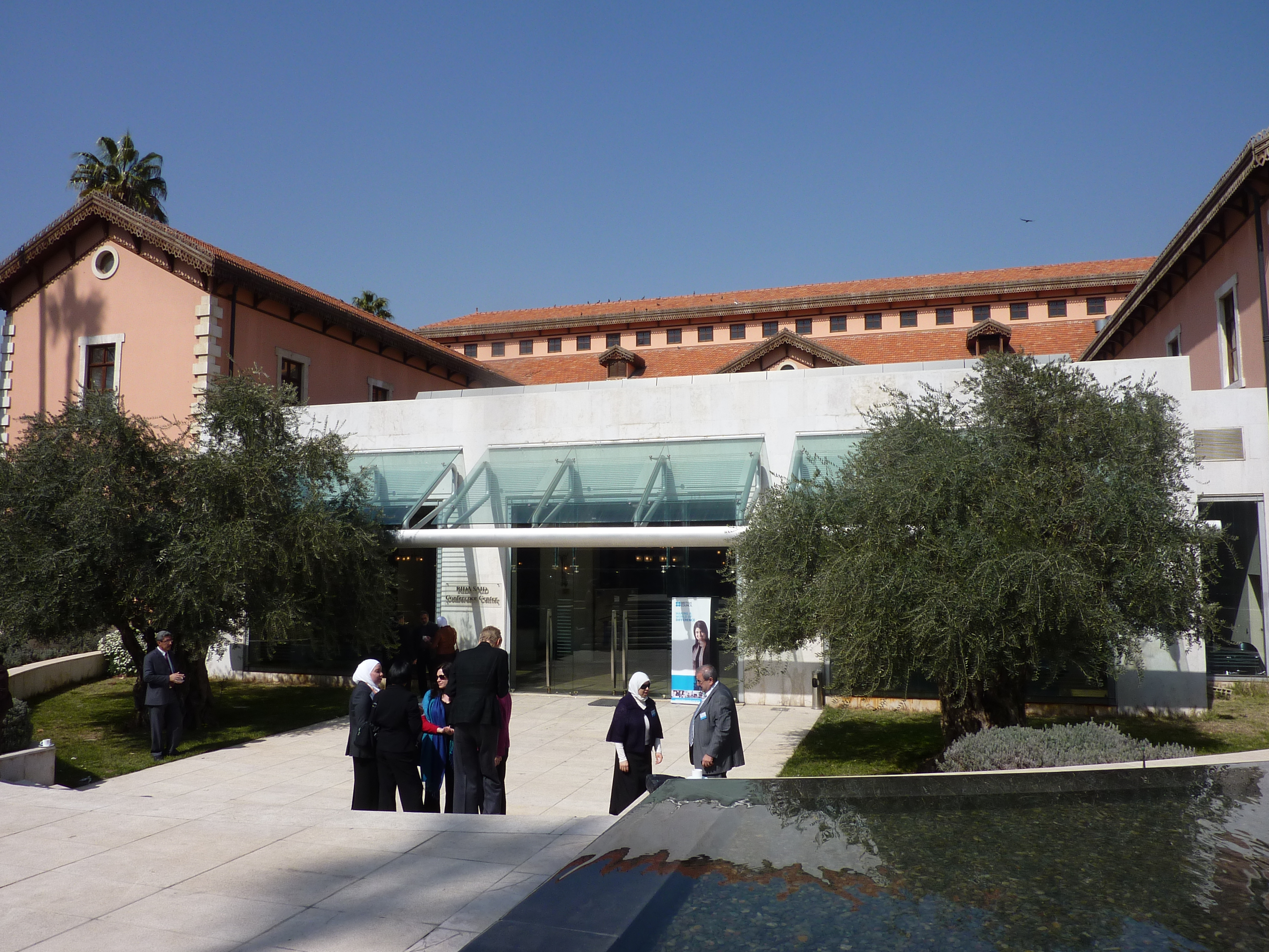 Damascus university internal view.